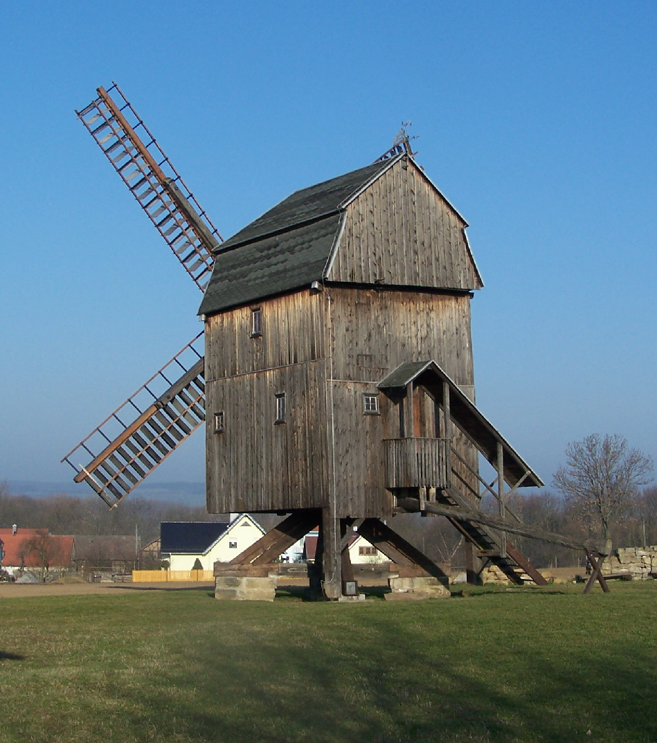 The windmill in Tüngeda village.